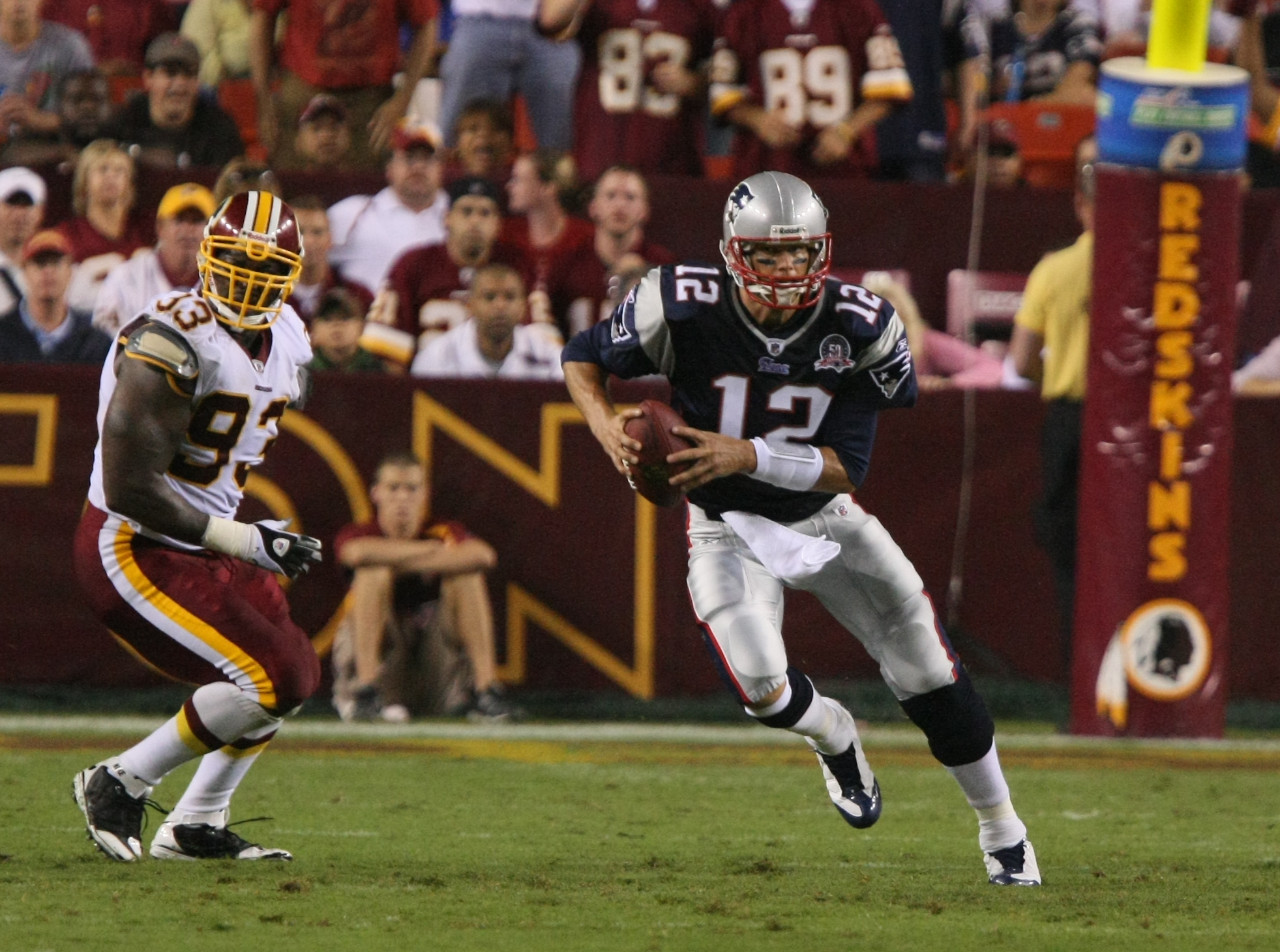 Tom Brady #12 of the New England Patriots in action during a preseason game against the Washington Redskins at FedExField on August 28, 2009 in Landover, Maryland.